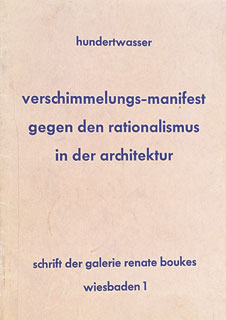 Cover of Hundertwasser's Mouldiness Manifesto, 1958